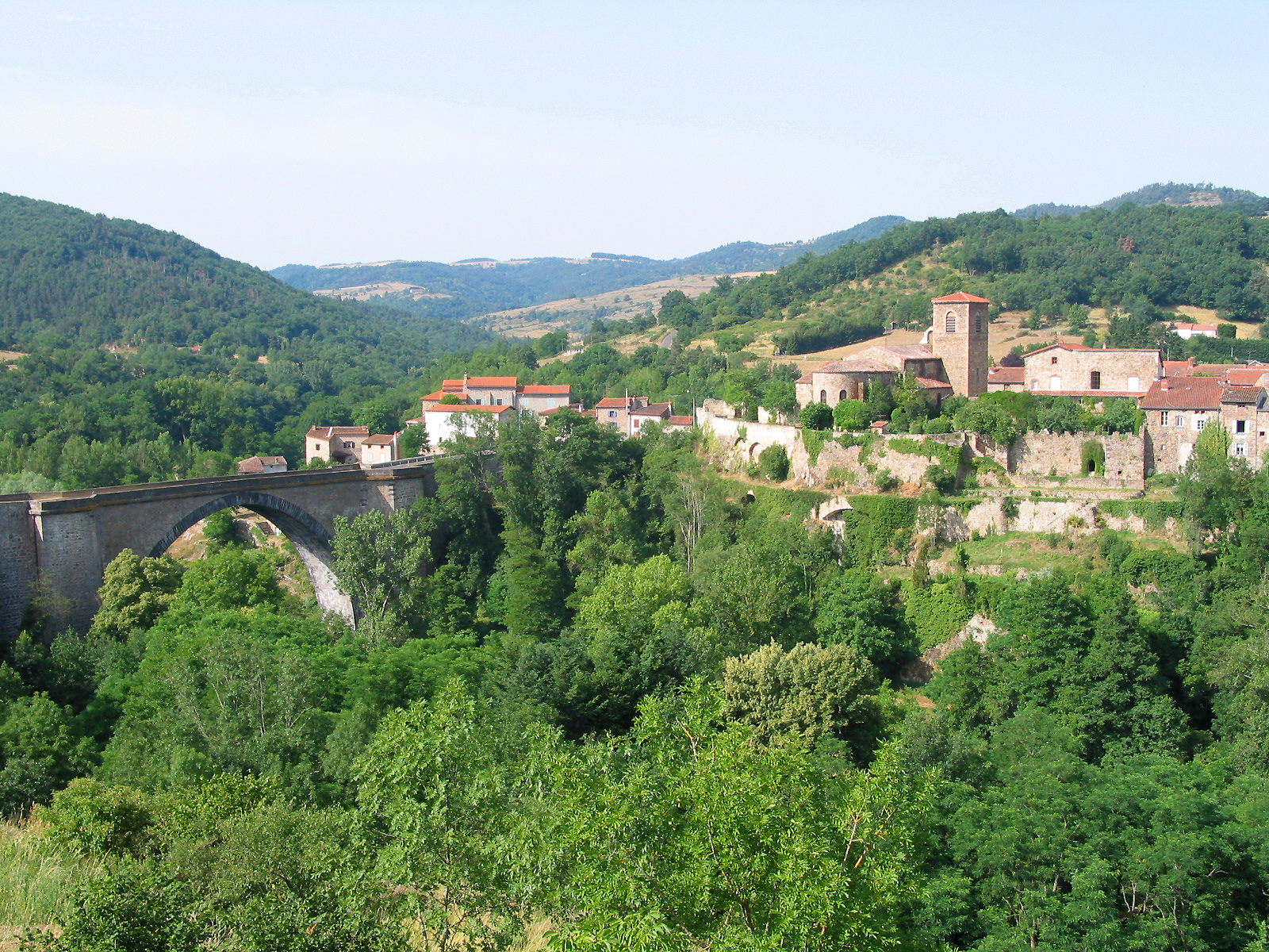 Vieille-Brioude (Haute-Loire - France), le bridge on the Allier River and the old the small market town.